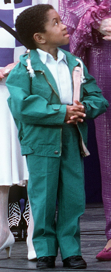 American actor Emmanuel Lewis, cropped from photo DF-ST-88-05173 President Ronald Reagan appears on stage with some of the cast of "Bob Hope's High Flying Birthday Extravaganza," a television show celebrating comedian Bob Hope's 84th birthday. On stage are actor Kirk Cameron, comedienne Phyllis Diller, actor Emmanuel Lewis, comedienne Lucille Ball and Bob Hope. The show preceded the ninth international airlift competition Airlift Rodeo '87. Exact Date Shot Unknown. POPE AIR FORCE BASE